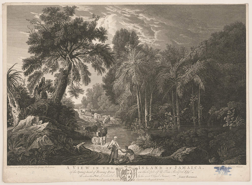 Title: A view in the Island of Jamaica, of the spring-head of Roaring River on the estate of William Beckford esqr. / drawn on the spot, and painted by George Robertson ; engraved by James Mason. Abstract/medium: 1 print : engraving.